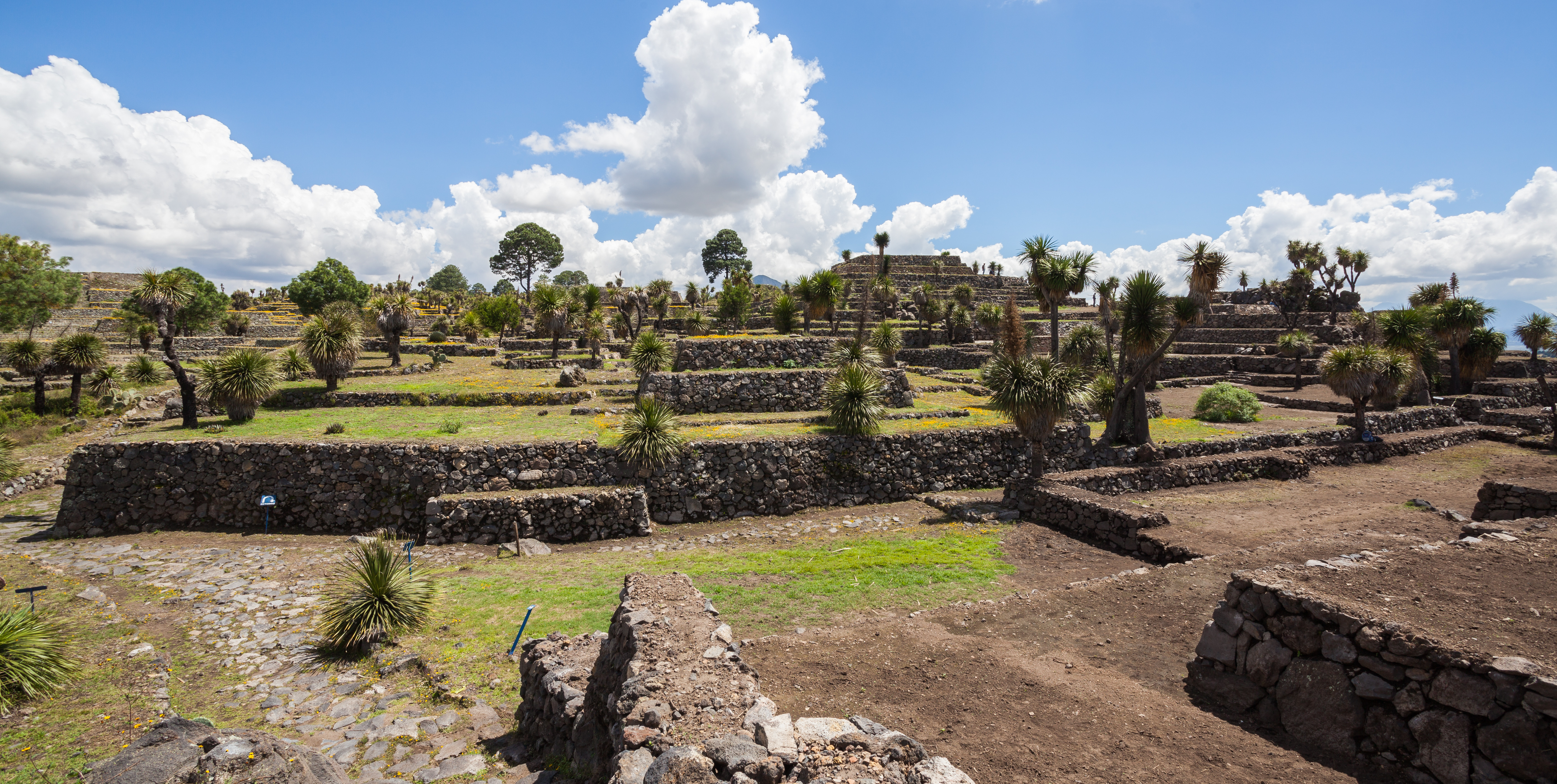 Archaeological area of Cantona, Puebla, Mexico